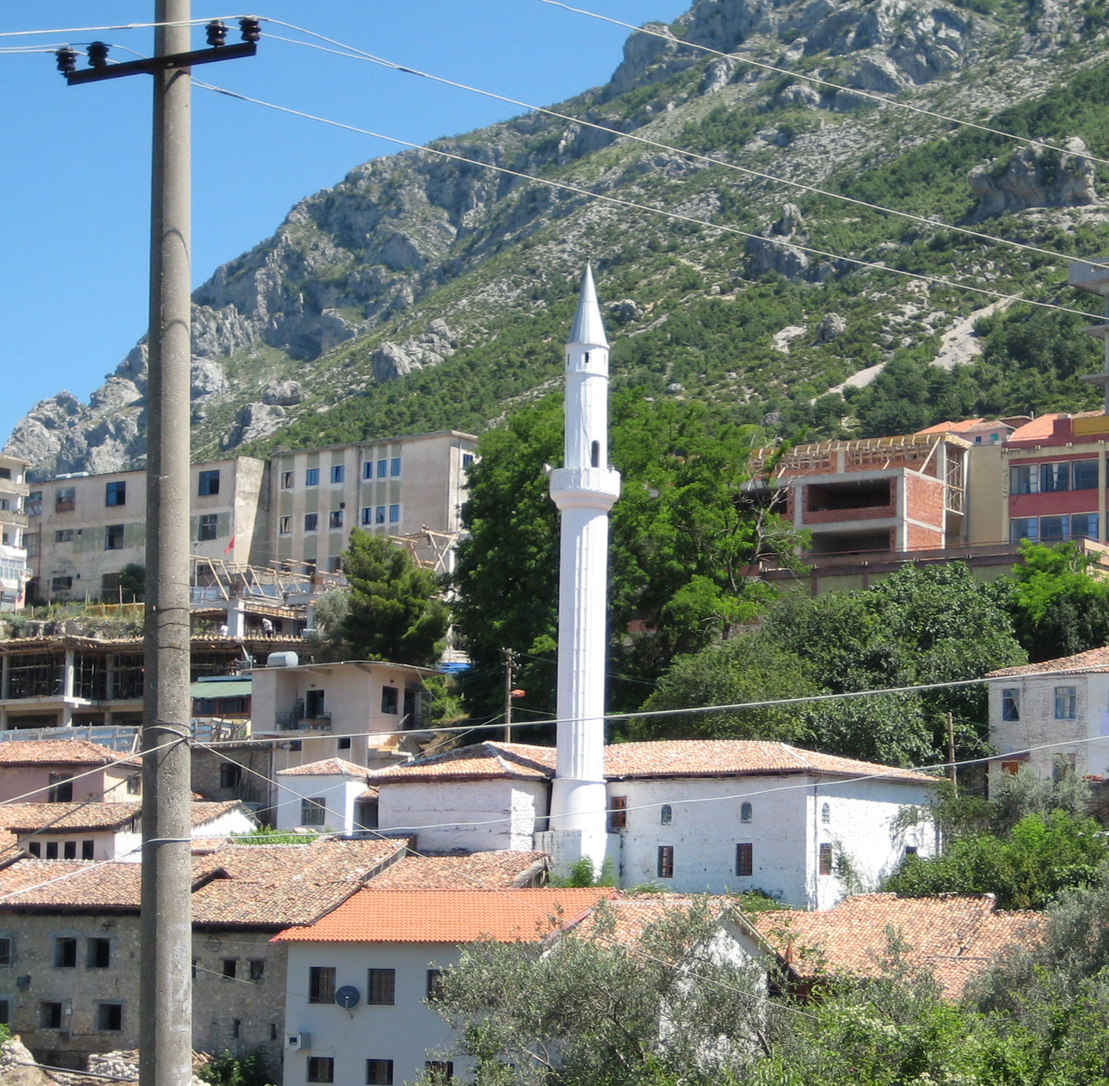 Bazaar Mosque in Kruja, Albania